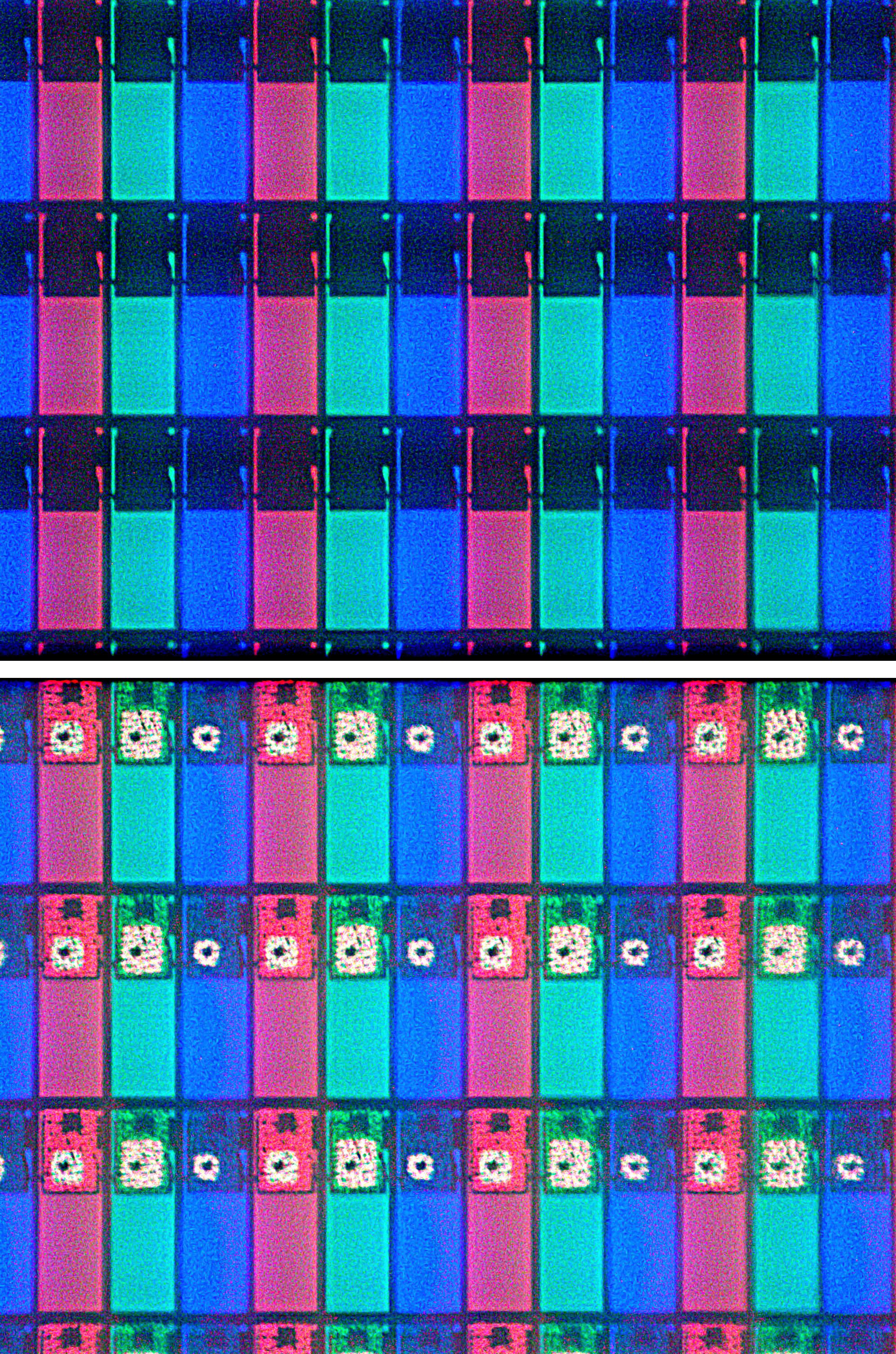 A Dell Axim x30 handheld computer thin film transistor LCD displaying a white background. Top image is made with self illumination only and bottom image is the same with top lighting on so individual subpixel transistors can be seen in reflection. Image taken with olympus microscope and pixelink imager.